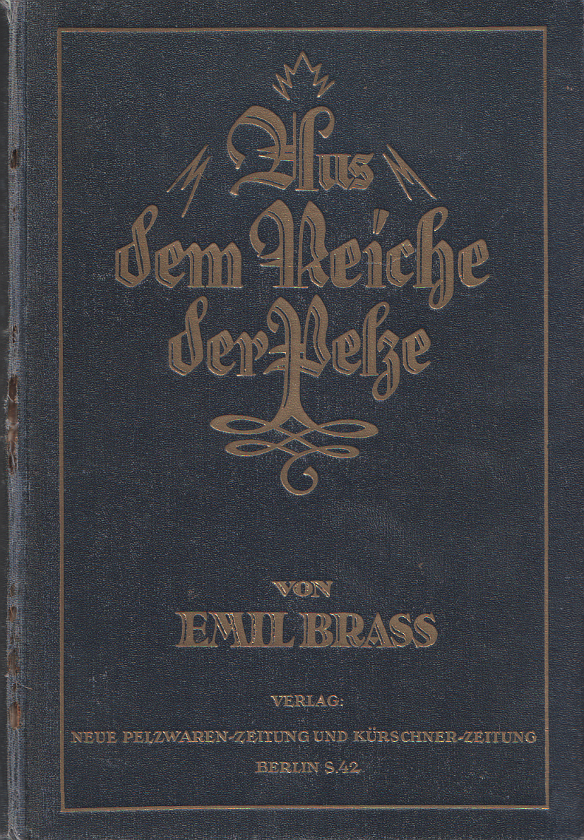 Emil Brass (German fur trader, consul, *1856; +1938): Aus dem Reiche der Pelze (From the Empire of Furs). Publisher: Neue Pelzwaren-Zeitung und Kürschner-Zeitung, Berlin 1925. 709 pages, cloth cover. 17,5 x 26 cm.